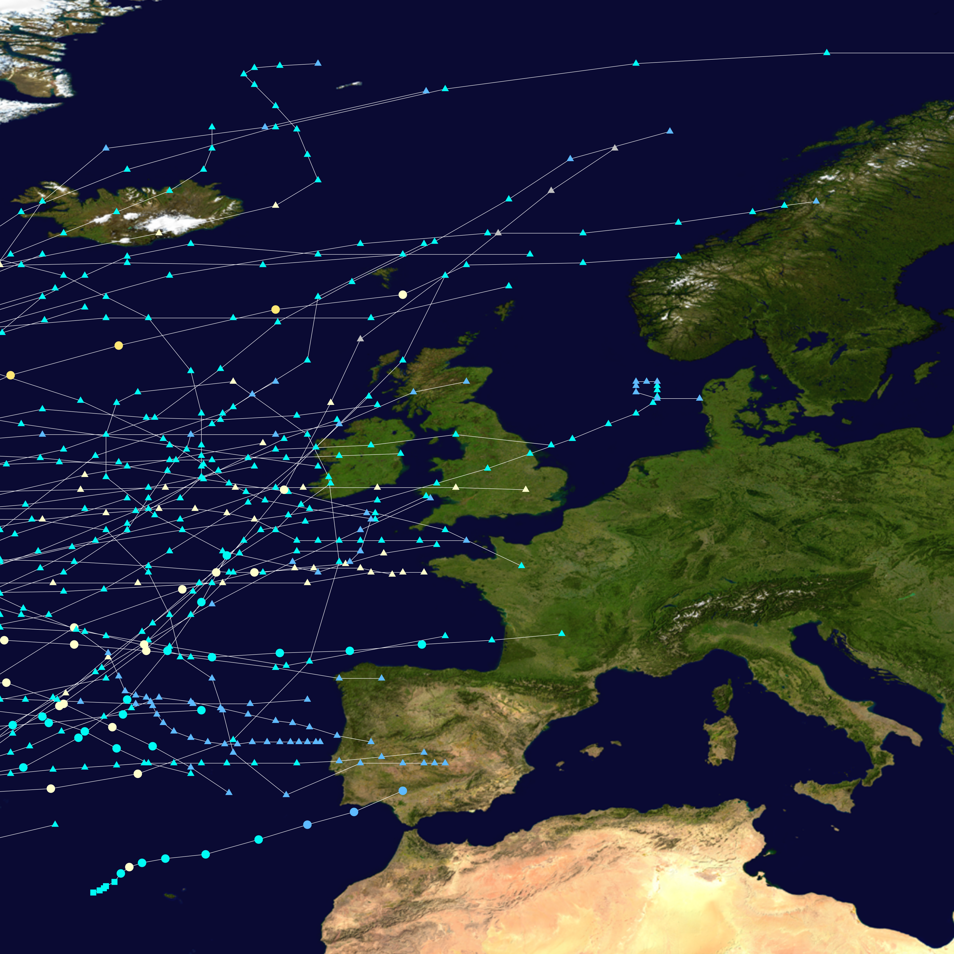 Track map of European tropical cyclones of the w:| . The points show the location of the storm at 6-hour intervals. The colour represents the storm's maximum sustained wind speeds as classified in the Saffir-Simpson Hurricane Scale (see below), and the shape of the data points represent the nature of the storm, according to the legend below. Saffir–Simpson hurricane wind scale Tropical depression ≤38 mph ≤62 km/h Category 3 111–129 mph 178–208 km/h Tropical storm 39–73 mph 63–118 km/h Category 4 130–156 mph 209–251 km/h Category 1 74–95 mph 119–153 km/h Category 5 ≥157 mph ≥252 km/h Category 2 96–110 mph 154–177 km/h Unknown Storm type Tropical cyclone Subtropical cyclone Extratropical cyclone / Remnant low / Tropical disturbance